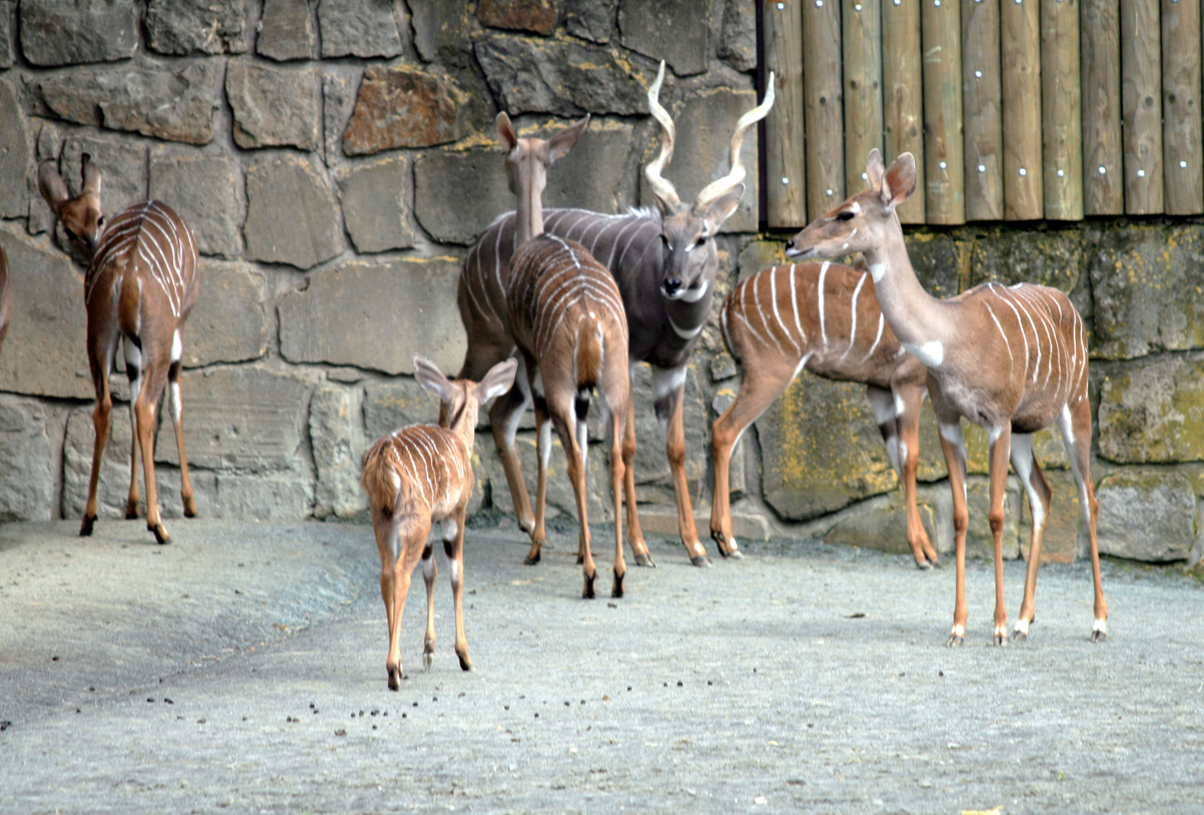 Lesser Kudu, Tragelaphus imberbis in ZOO Dvůr Králové, Czech Republic